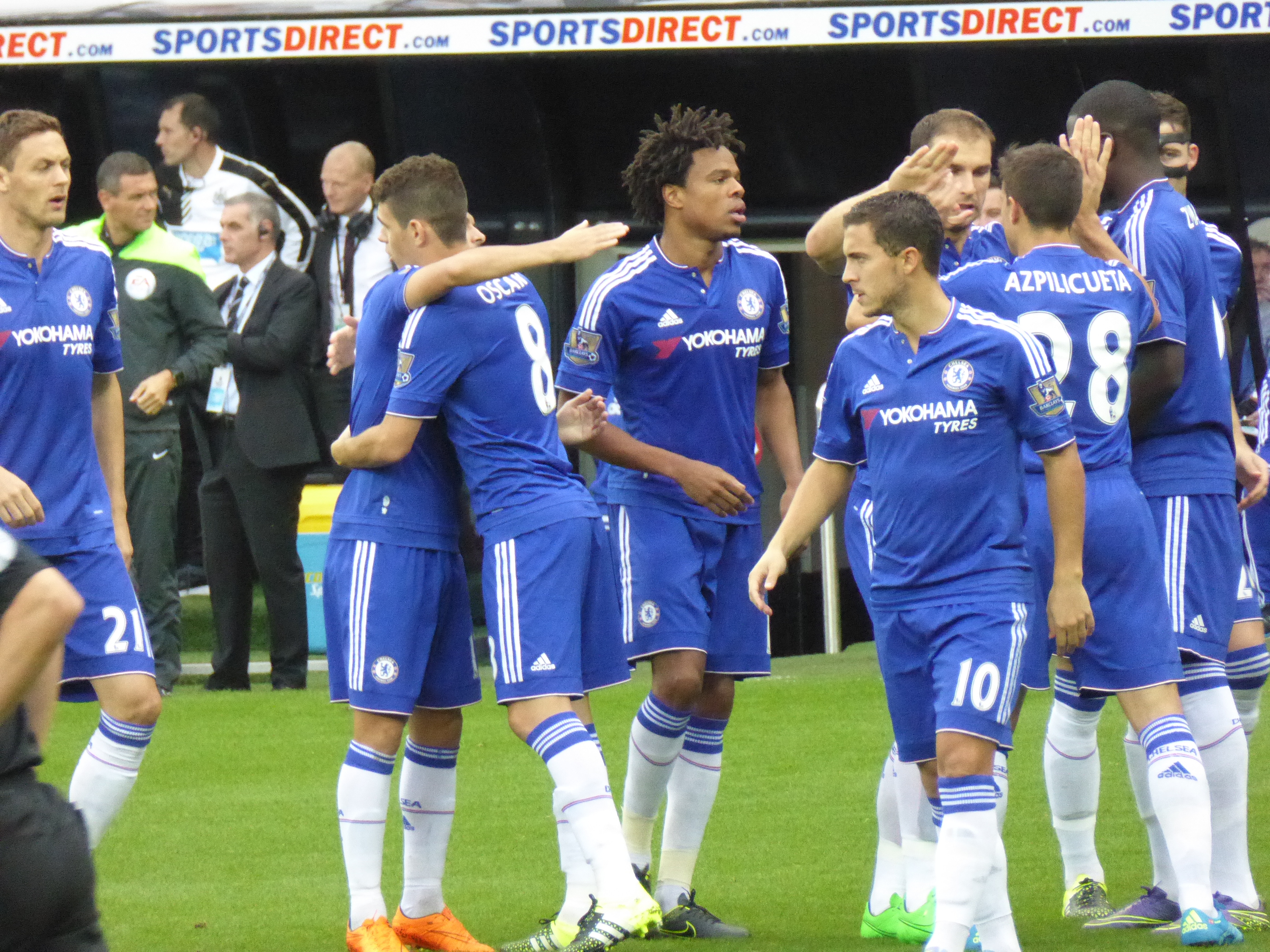 Newcastle United vs Chelsea (2-2), Barclays Premier League, St James' Park, Newcastle upon Tyne, Tyne and Wear, England, September 2015